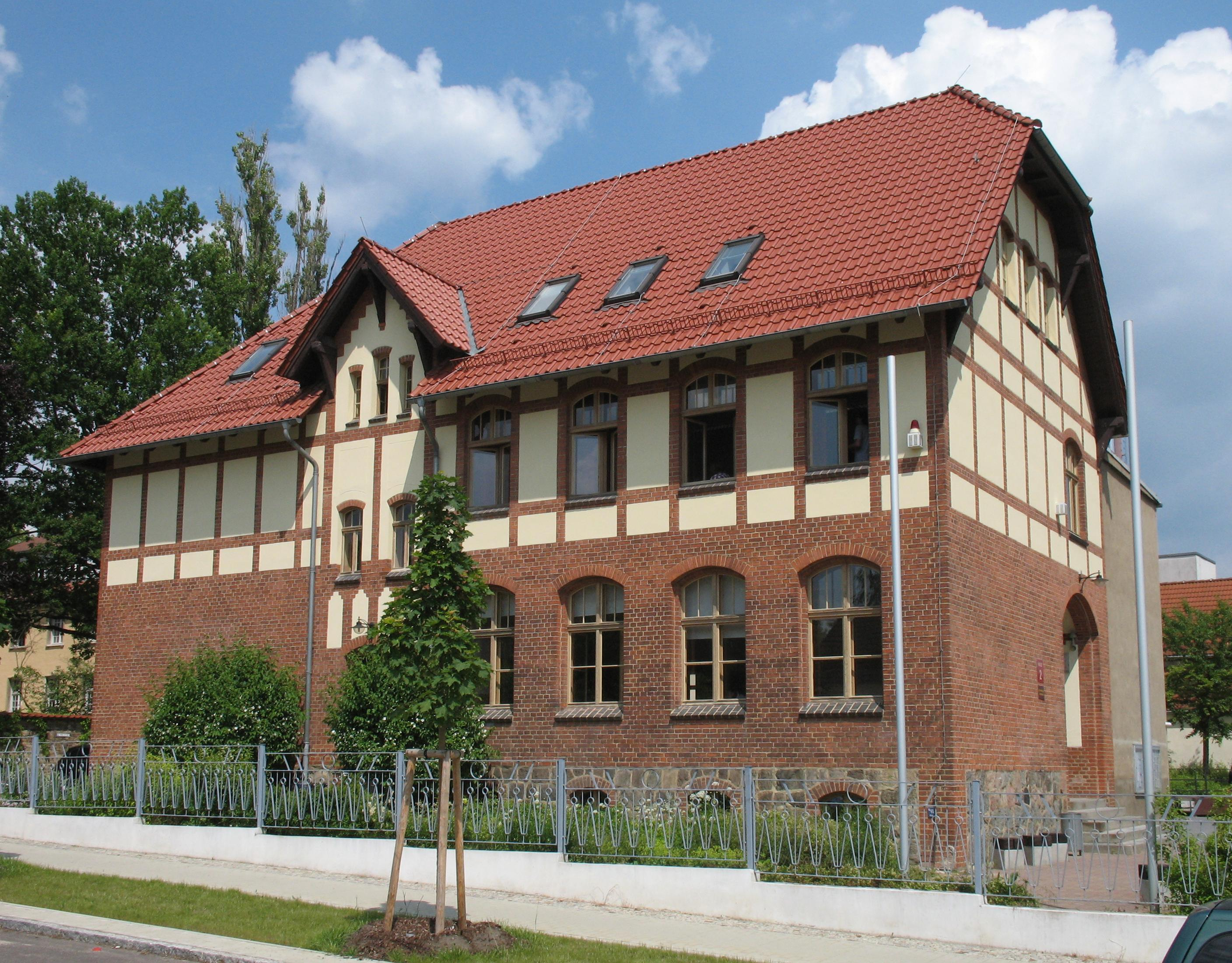 School building in Bad Belzig in Brandenburg, Germany